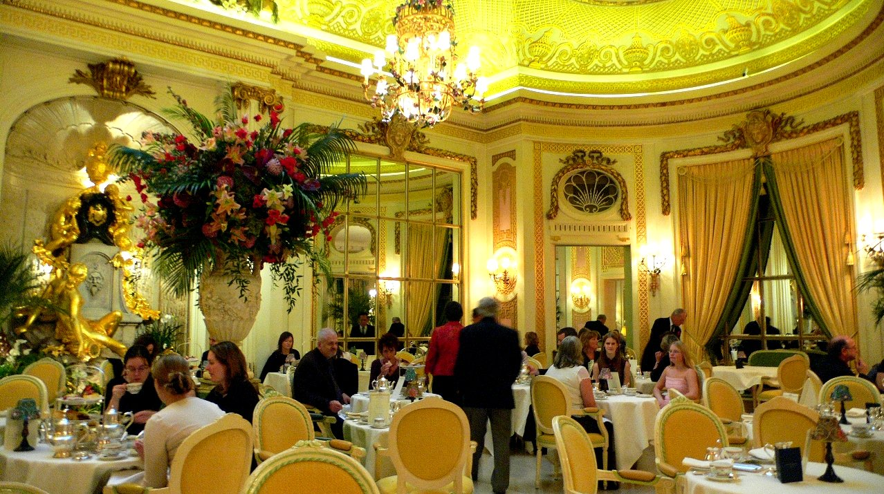 Tea at the Ritz